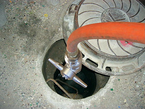 Alfa Laval Gamajet machine lowered into a manhole for cleaning